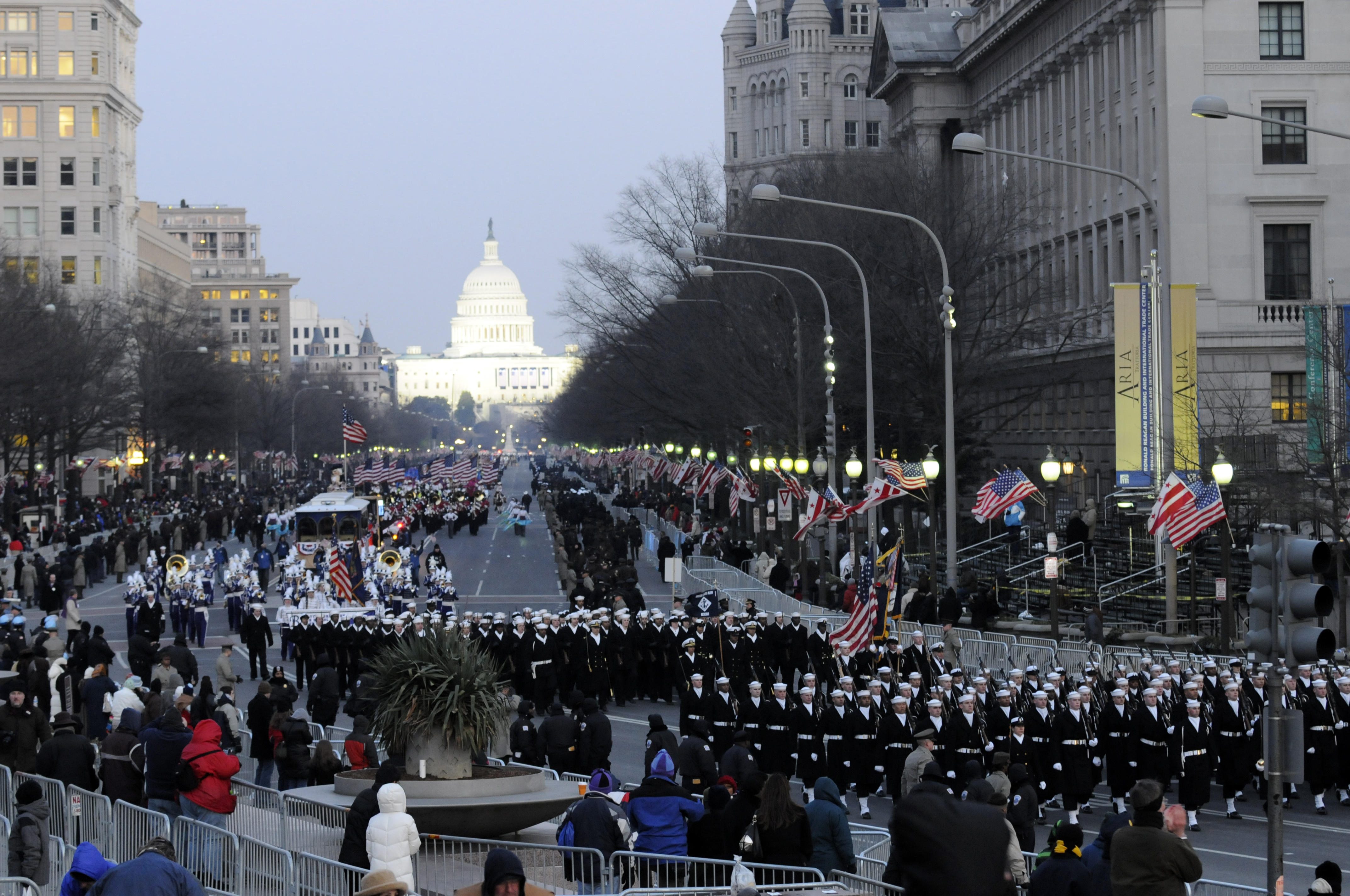 WASHINGTON (Jan. 20, 2009) Parade participants make their way down Pennsylvania Avenue during the 2009 Inaugural Parade in Washington. More than 5,000 men and women in uniform are providing military ceremonial support to the 2009 Presidential Inauguration, a tradition dating back to George Washington's 1789 Inauguration. (U.S. Navy photo by Mass Communication Specialist 1st Class Michael Heckman/Released)